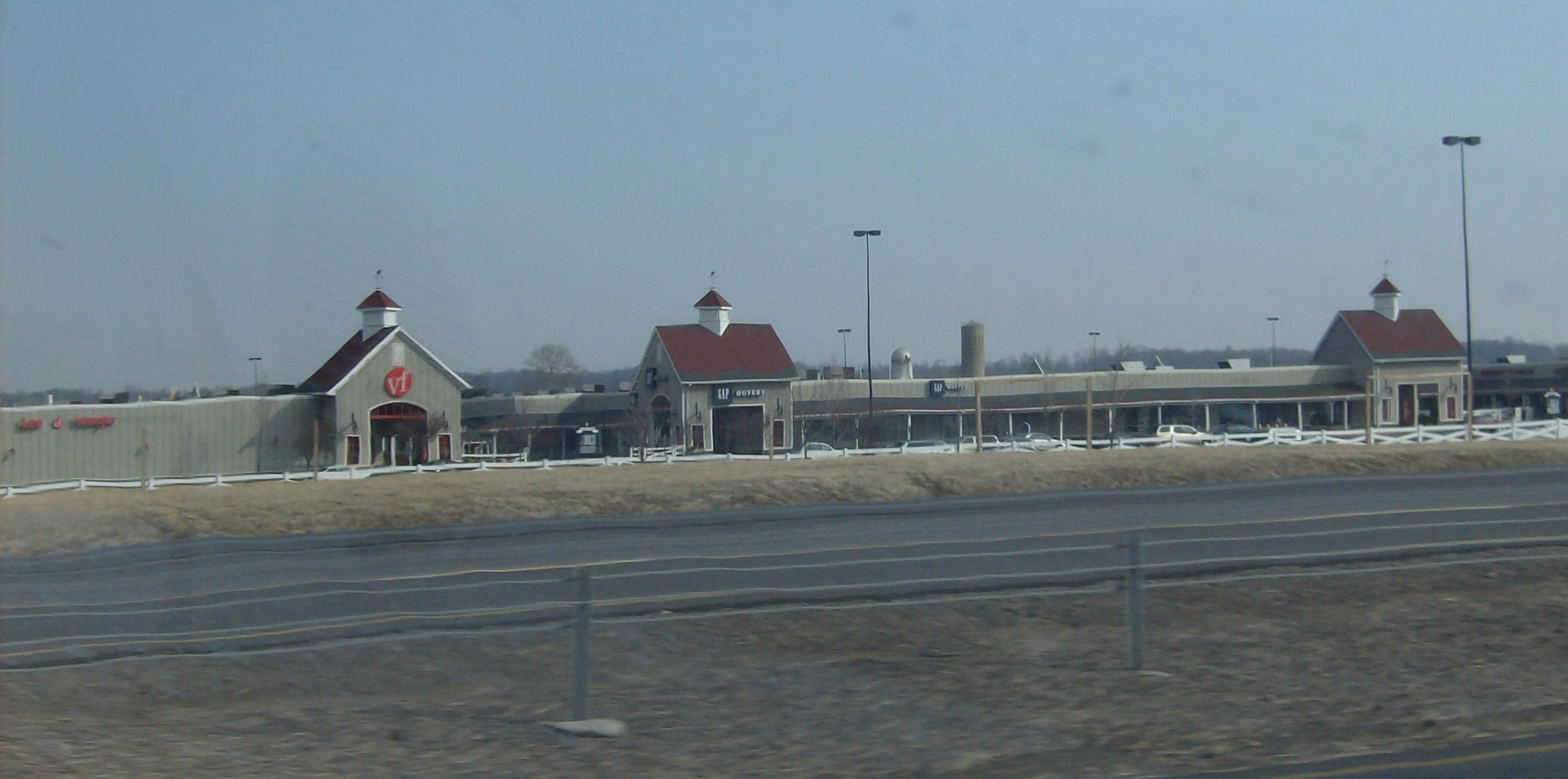 View of the Lodi Prime Outlets in Harrisville Township, Medina County, Ohio, United States. Picture taken from Interstate 76.